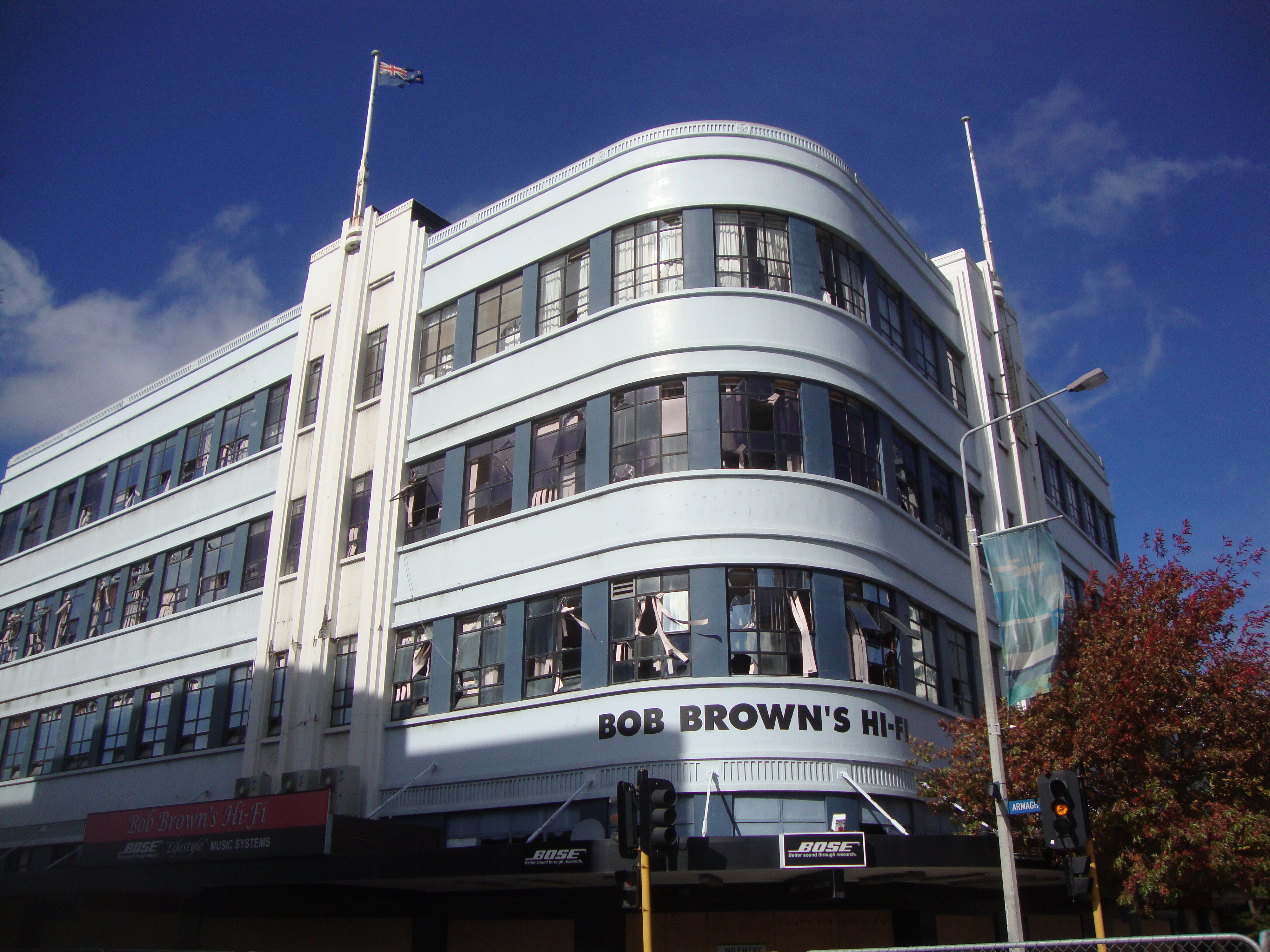 MED Building, Christchurch, shortly before demolition.